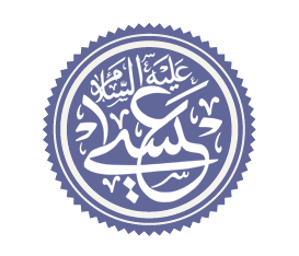 Prophet ʿĪsā (Jesus) calligraphic logo without background.